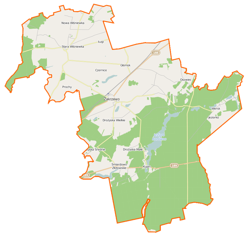 Map of Gmina Zakrzewo, Poland This map of Zakrzewo (gmina w województwie wielkopolskim) was created from OpenStreetMap project data, collected by the community. This map may be incomplete, and may contain errors. Don't rely solely on it for navigation.